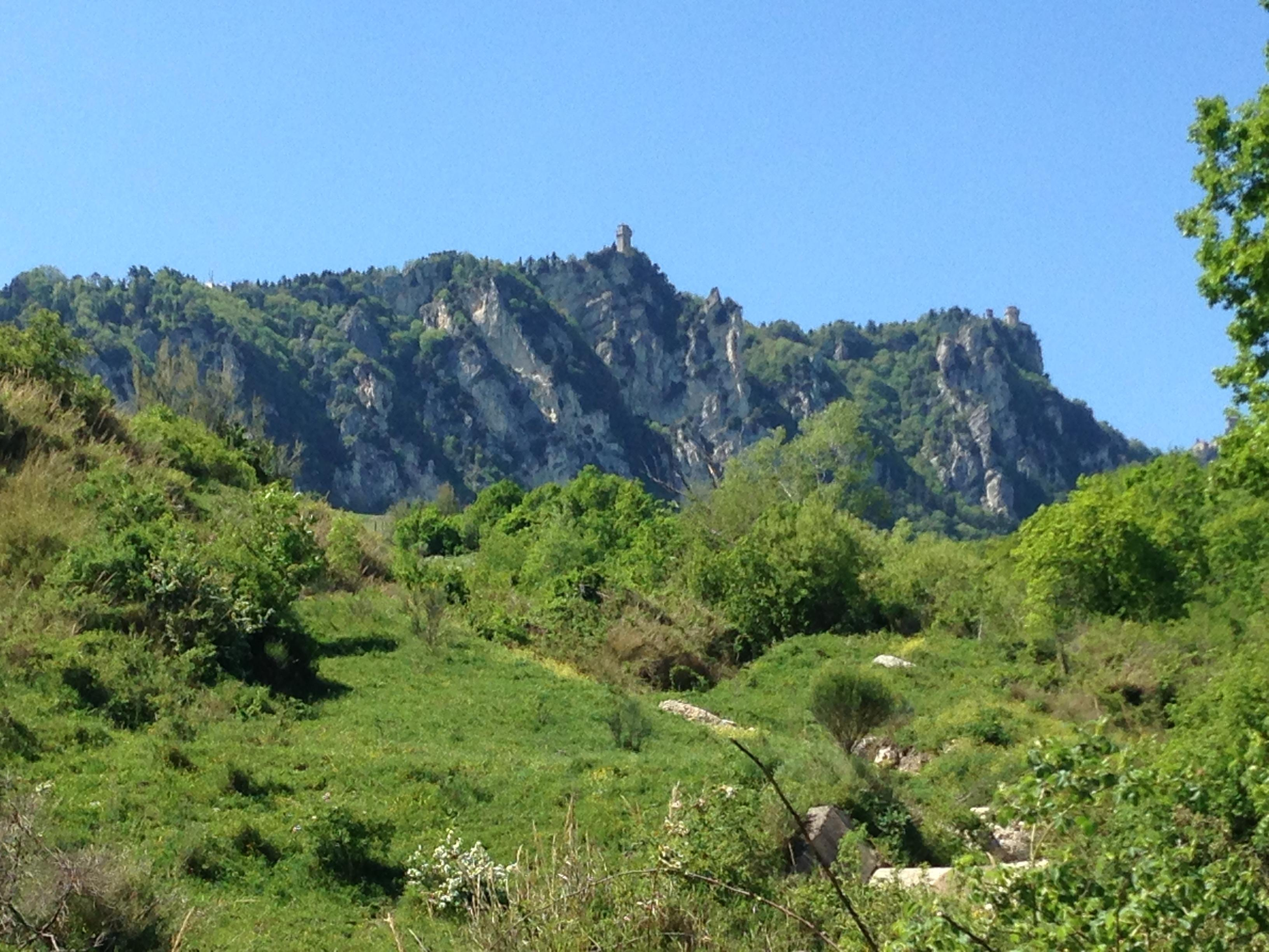 Mount Titan